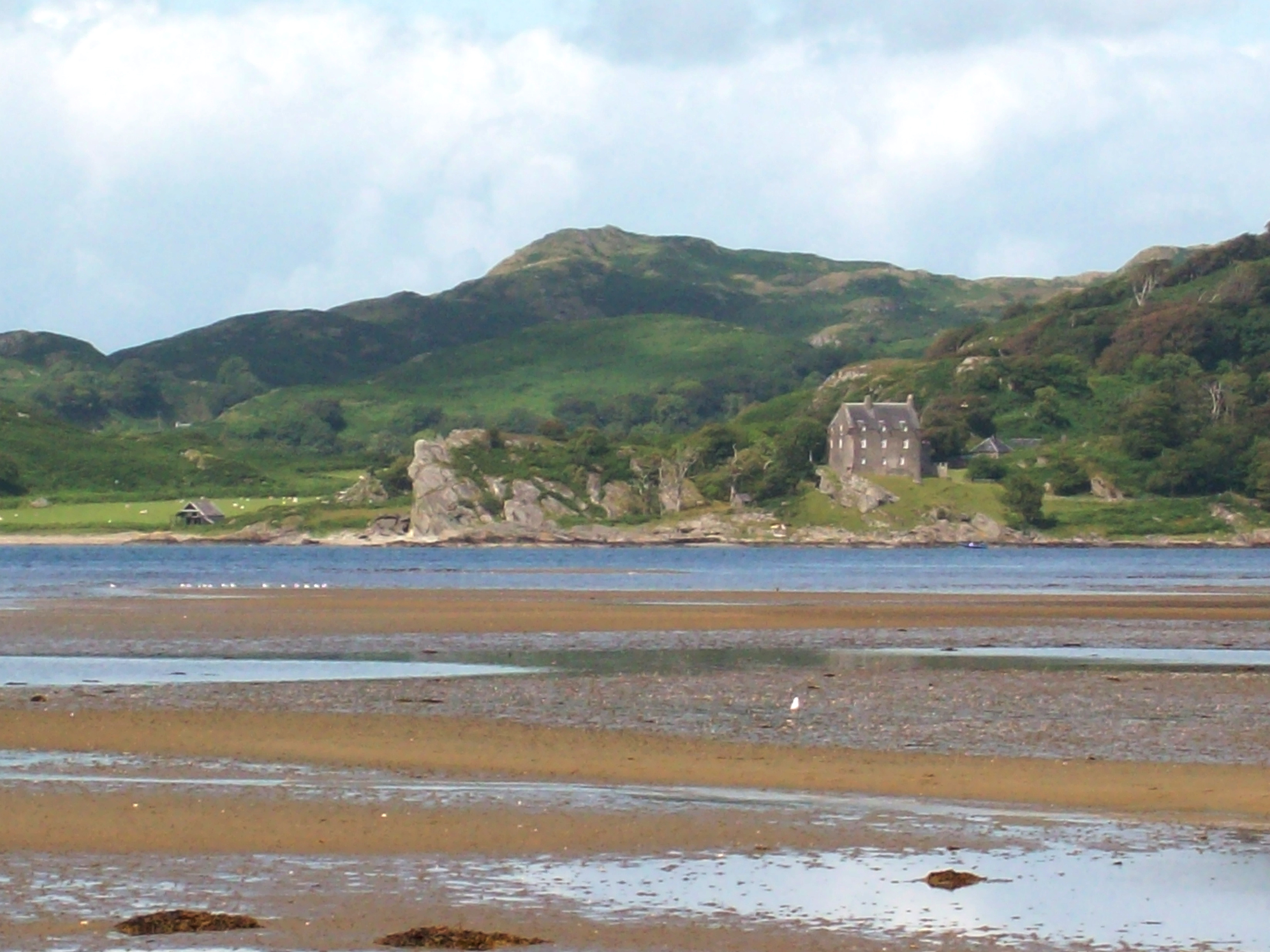 A shot from the beach at Crinan Ferry, just outside Lochgilphead, Argyll & Bute.